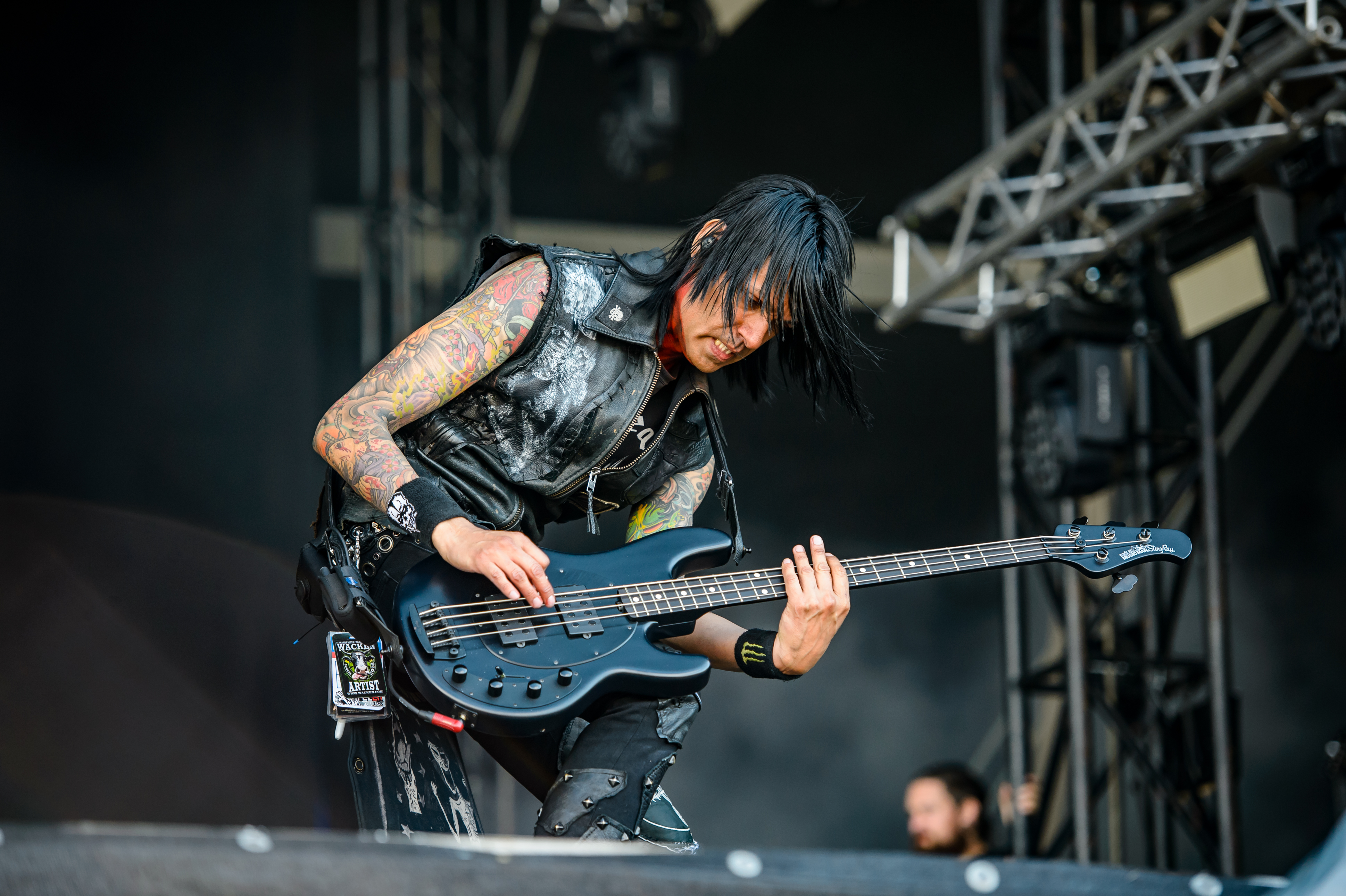 DevilDriver; Wacken Open Air 2016